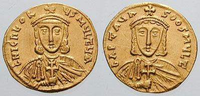 Artabasdos and his son Nikephoros. AV solidus. Constantinople. G APTAUASDOS MULT, facing bust of Artabasdos, wearing crown and chlamys, and holding patriarchal cross / G NIChFORUS MULTUM, facing bust of Nikephoros, wearing crown and chlamys, and holding patriarchal cross.